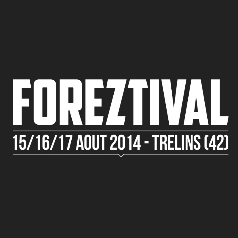 Logo Foreztival 2014